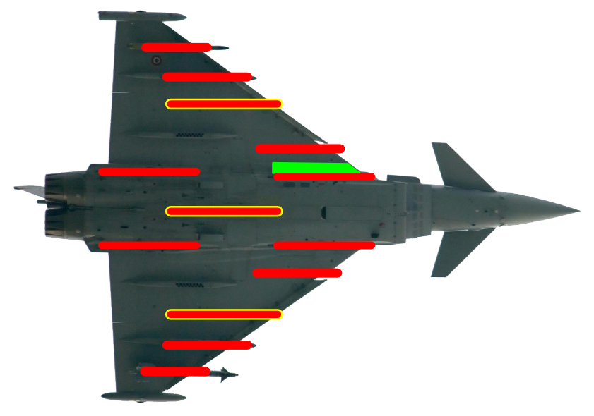 Eurofighter Typhoon hardpoints. Red: Hardpoint; Red with yellow outline: Hard point with the ability to hold an droptank; Green: Location of internal cannon.